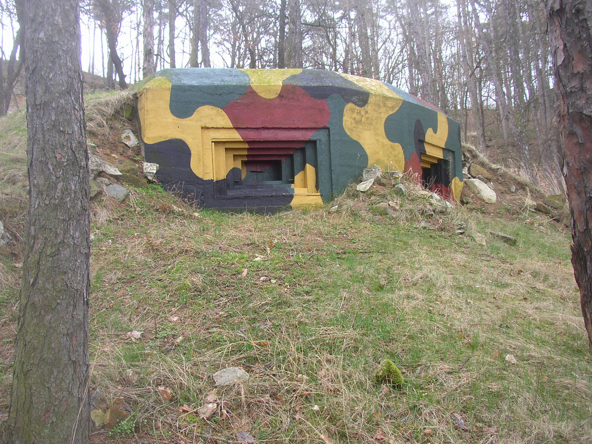 Back to 1938 state restored Pillbox Type 36 in a hillside above hamlet of Mlýne, Žižice, municipality, Kladno District, Czech Republic. It was a part of so called Prague Line a section of pre-WWII Czechoslovak fortifications against Nazi Germany defending western approaches to Prague. Nowadays this only preserved Type 36 bunker in Central Bohemia belongs to Military Open-air Museum in Smečno.